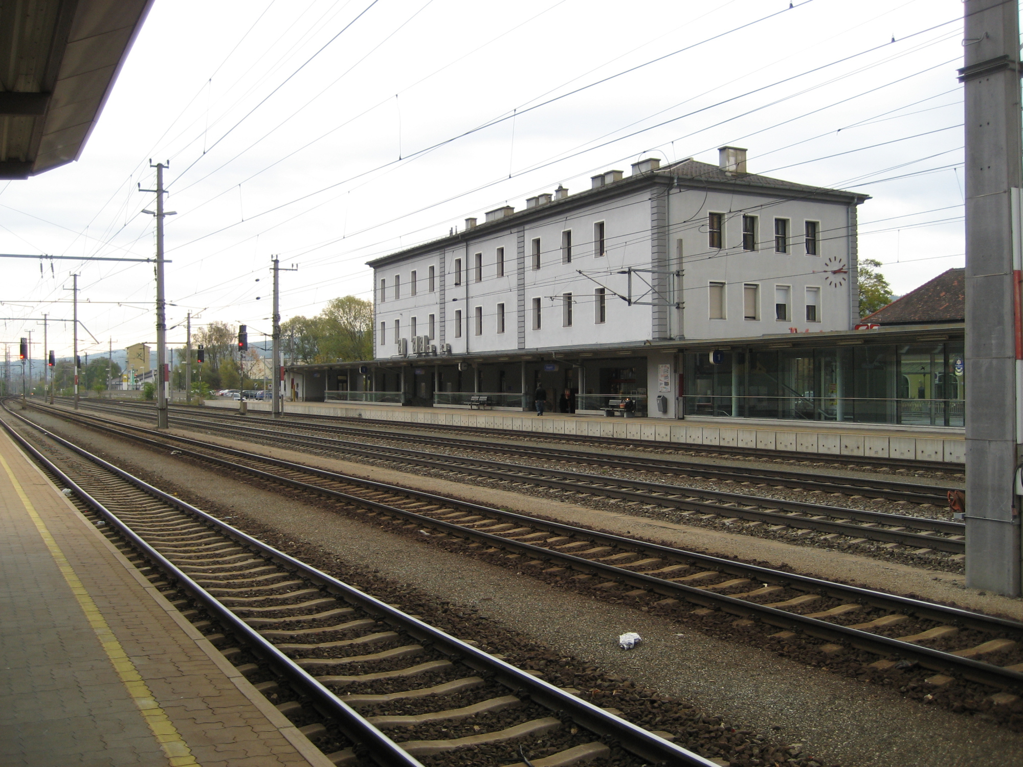 Gloggnitz train station in Lower Austria